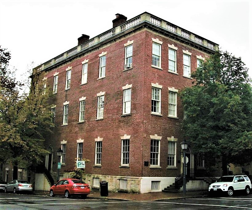 Image I took for Wikipedia